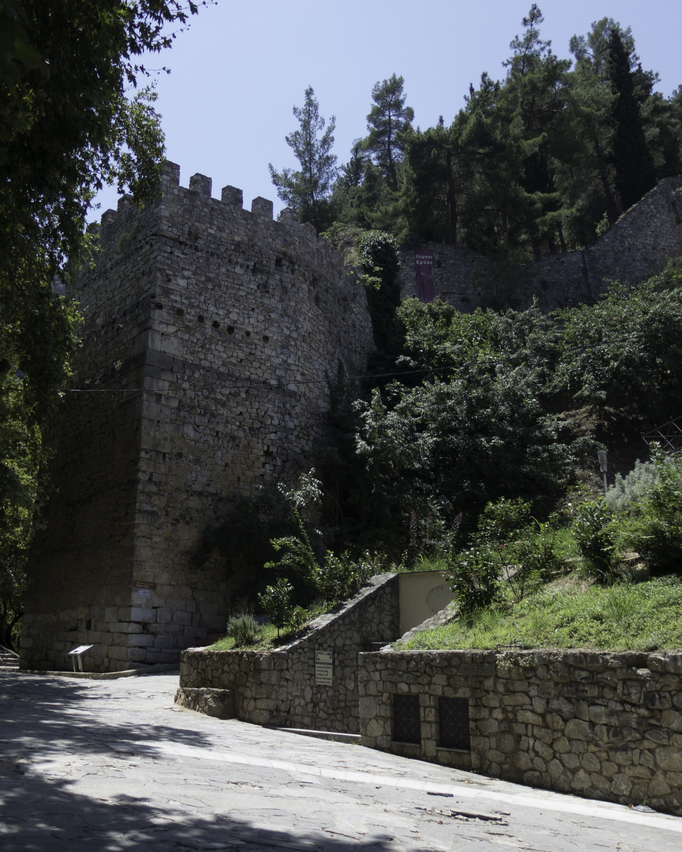 The castle of Livadeia is on the south edge of the city. The shape of the castle today is from the period that the warriors of the Catalan Company occupied the area. That is why the castle is considered a "Catalan castle", one of the 4 of this kind in Greece. ( last visited 2018-08-21